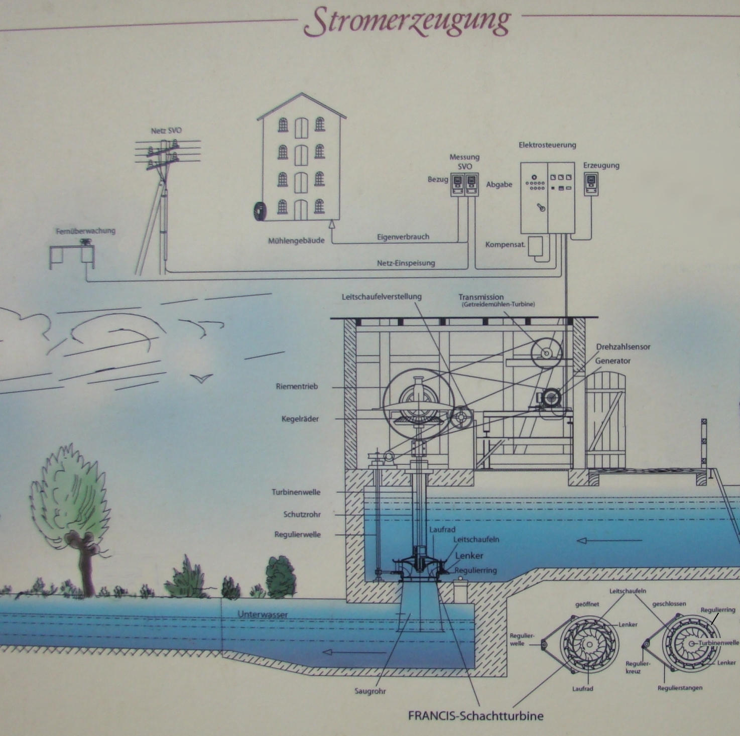 Display board showing the principle of electricity generation using Francis turbines by the turbine house in Müden, Örtze, Lower Saxony, Germany